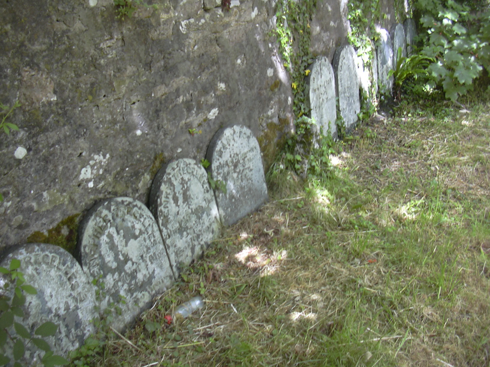 Budock Quaker Burial Ground, near Falmouth, Cornwall, UK. Gravestones have been placed against the walls and burial mounds levelled. Several notable people are buried here.